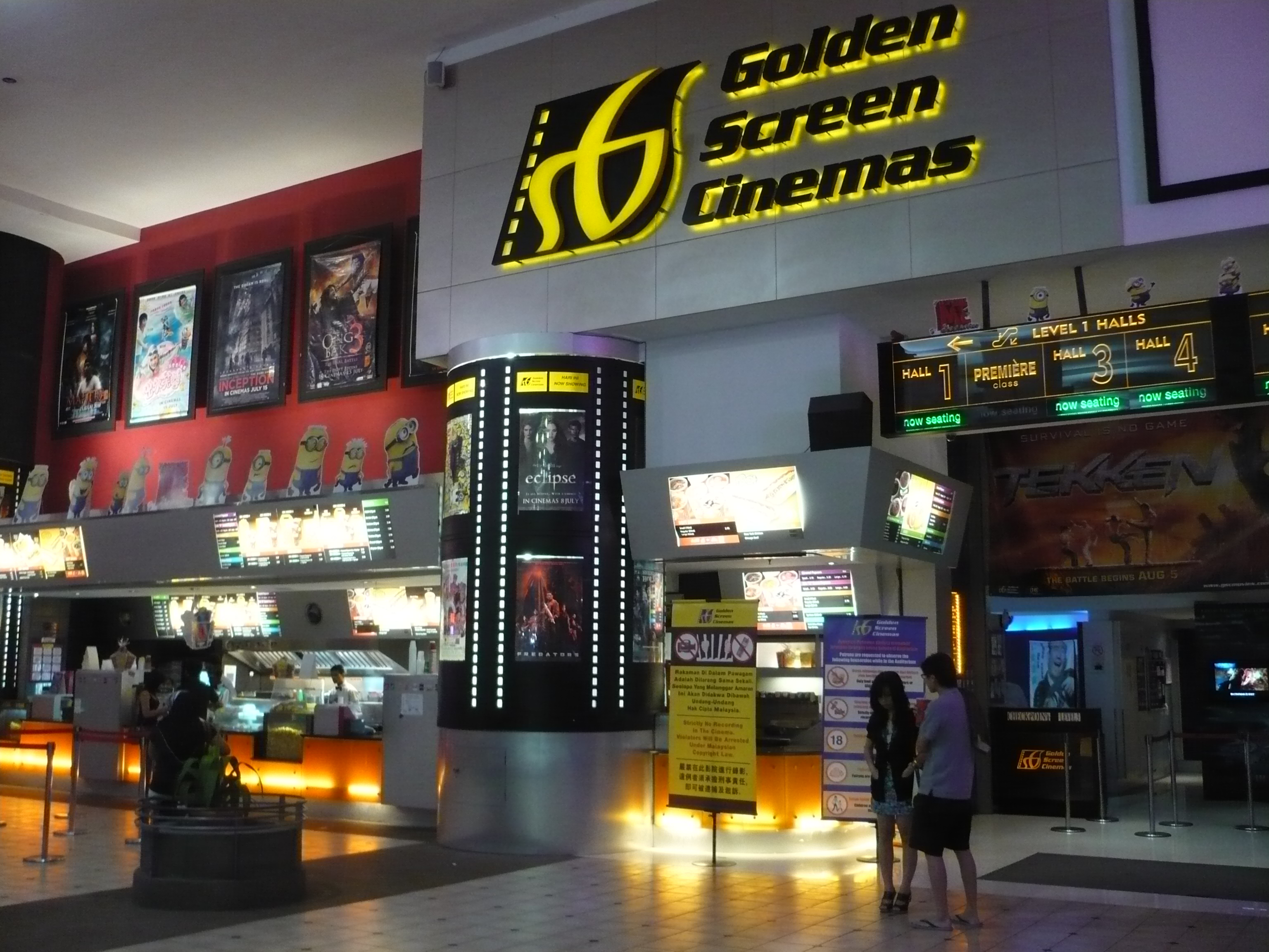 Cinema for you to enjoy with great delight within walking distance within the Berjaya City